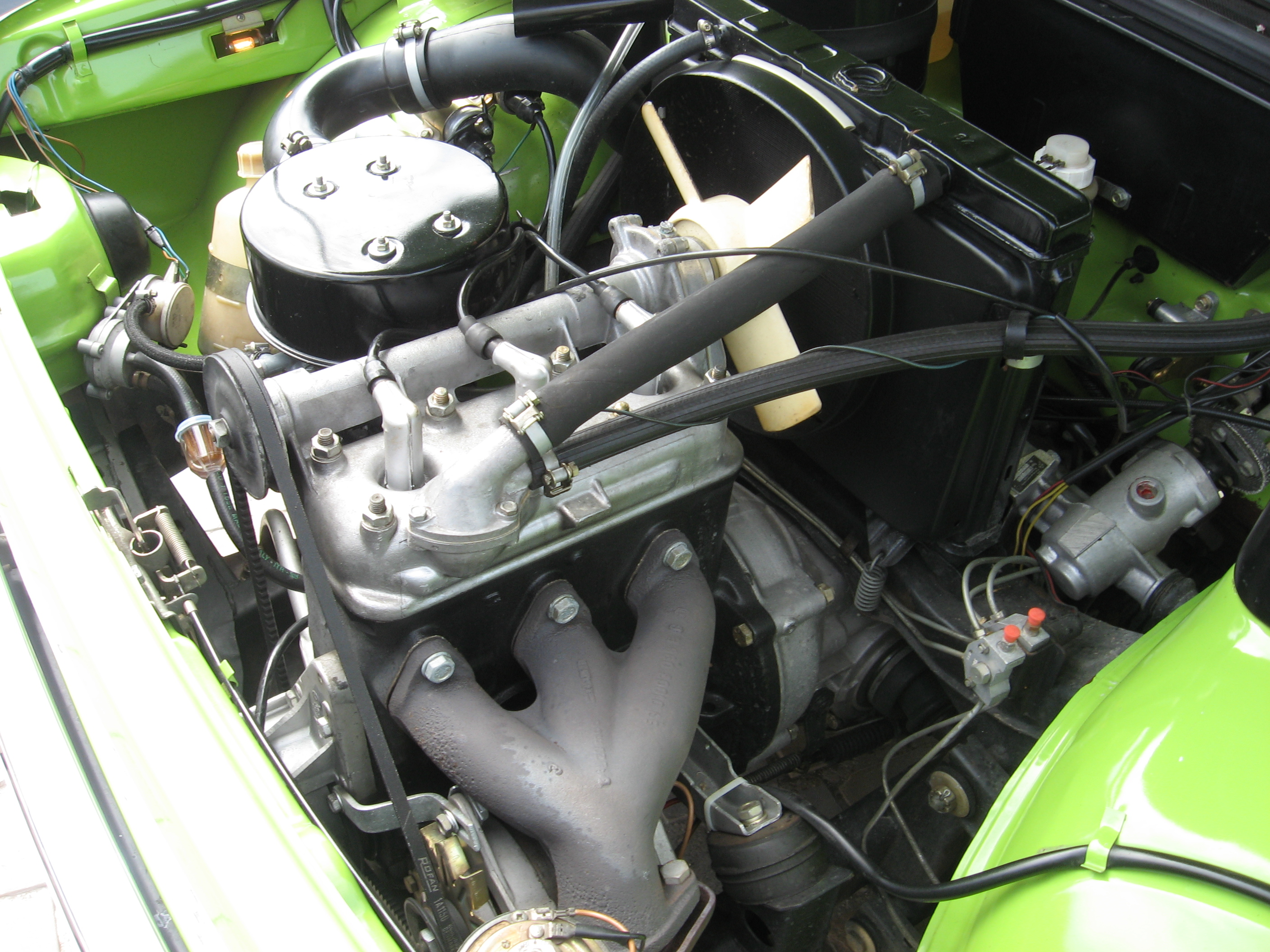 Subject: Wartburg 353 Author: Luc106 Date:May 16th, 2010 Place/Country: Cesenatico (FC), Italy I release all rights in the public domain. Licensing